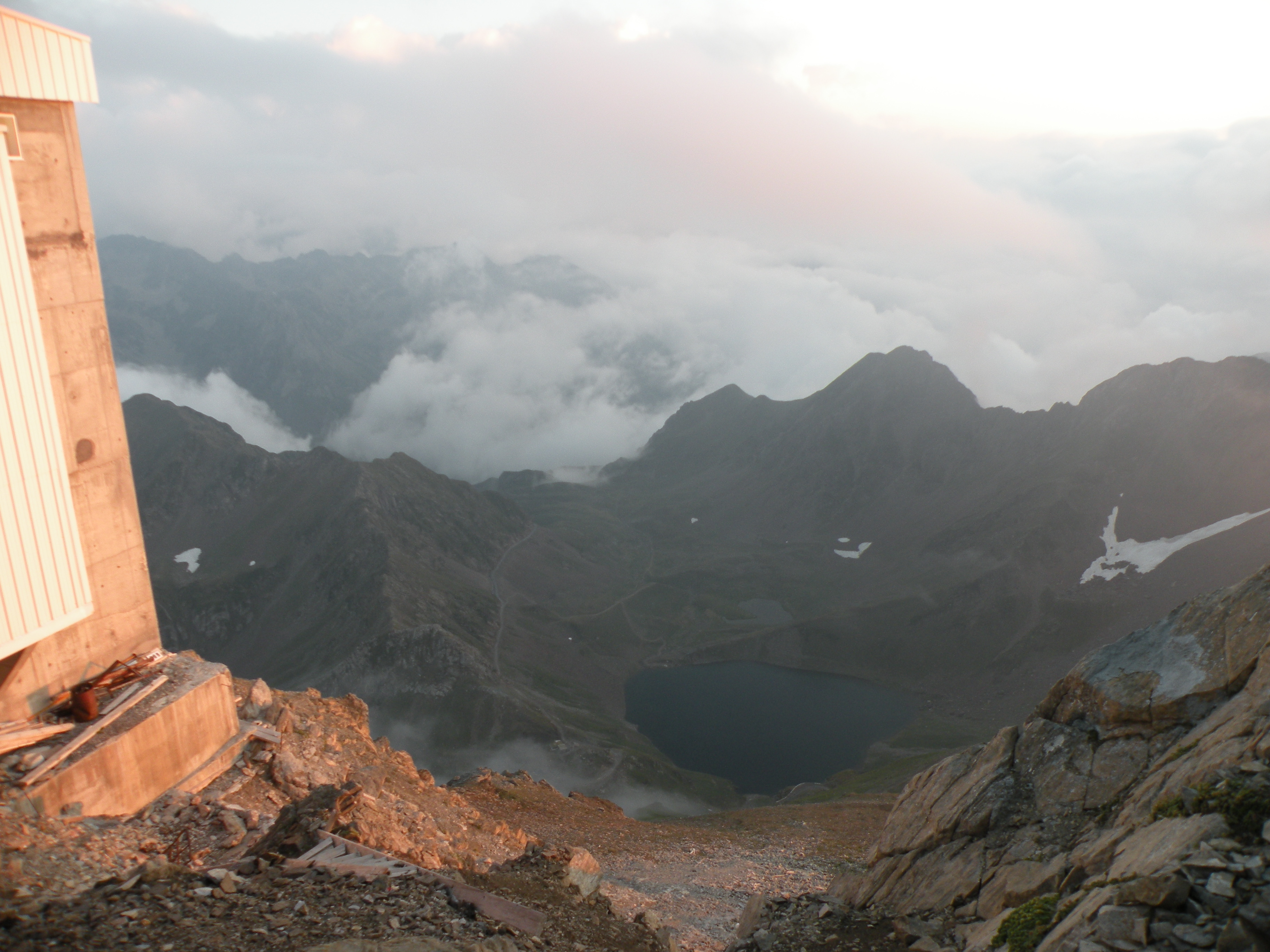 Lac d'Oncet seen from Pic du Midi de Bigorre